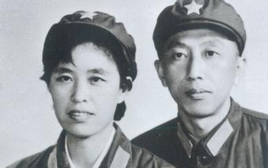 Yan Su (1930-2016, a Chinese military lyricist) with his wife Li Wenhui.